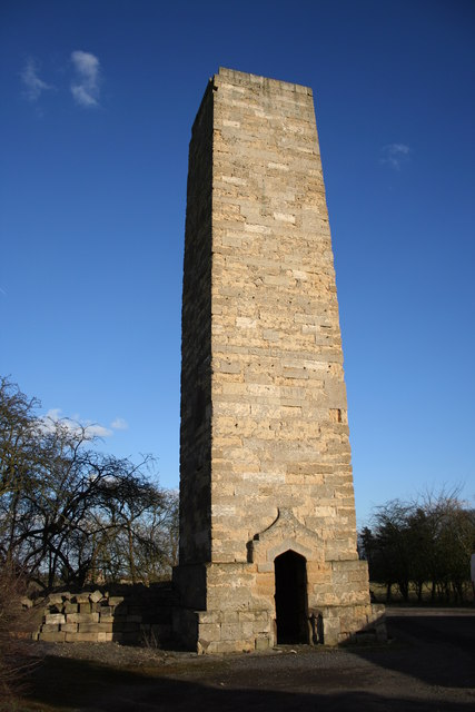 Dunston Pillar. Dunstan Pillar stands 92ft high, erected by Sir Francis Dashwood MP, of Nocton Hall in 1751. For many years it was surmounted by a 15ft high beacon as a guide for travellers crossing heath. Dashwood was founder of the notorious Hellfire Club and numerous stories abound about its intended use. In 1810 the beacon was removed by order of the Earl of Buckingham and replaced with a statue of King George III to celebrate the King's Golden Jubilee. Unfortunately for the mason John Wilson, he fell to his death whilst erecting it. In 1940 the statue was removed as a danger to low flying aircraft from Coleby Heath and Waddington .. part of the remains can be seen in Lincoln castle grounds 132830.